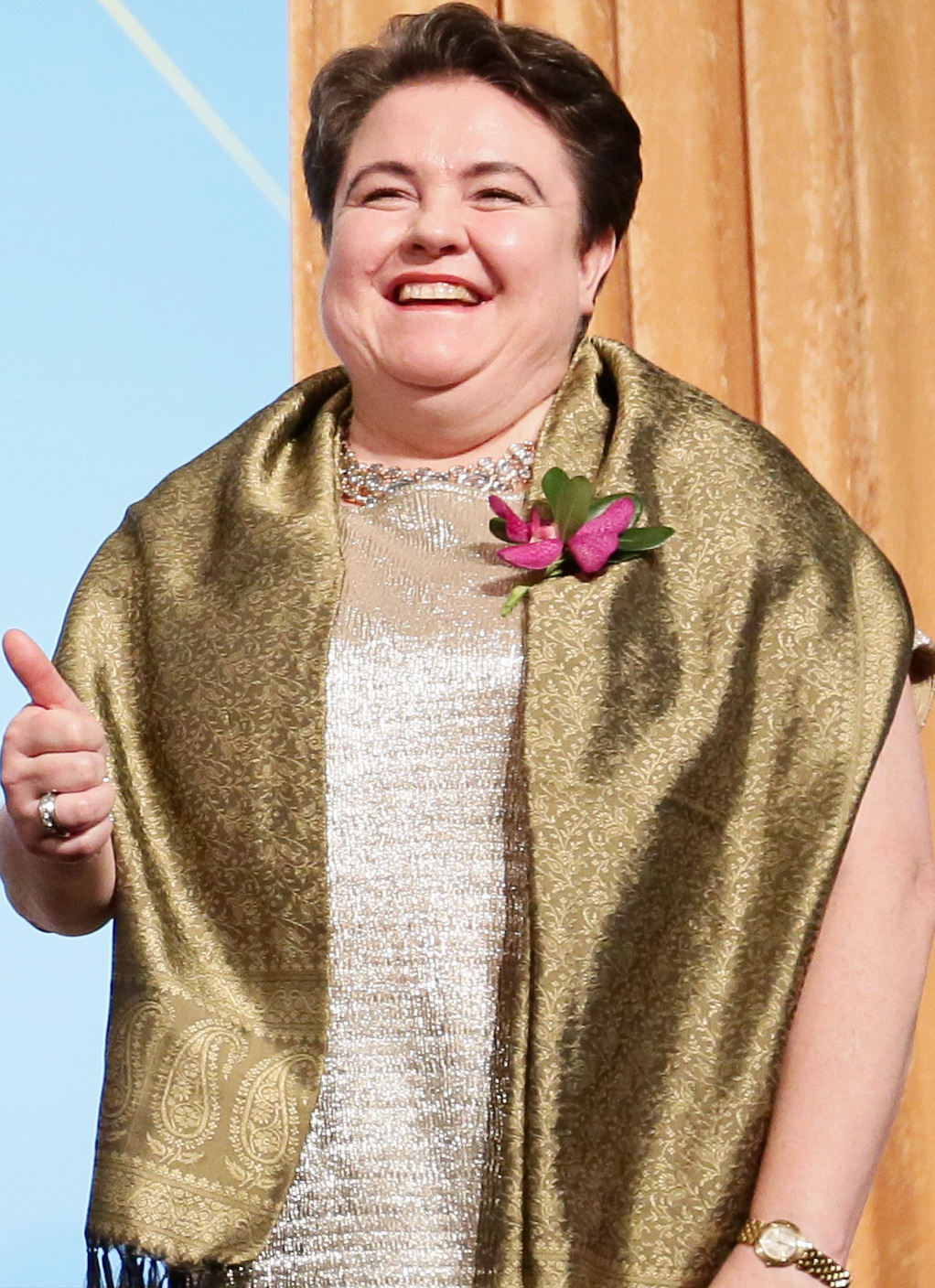 President Tsai attends the 2016 Europe Day Dinner held by the European Chamber of Commerce Taiwan. (2016/06/07) 授權方式及範圍：中華民國總統府│政府網站資料開放宣告 Authorization Method & Scope: Office of the President, Republic of China (Taiwan) | Government Website Open Information Announcement